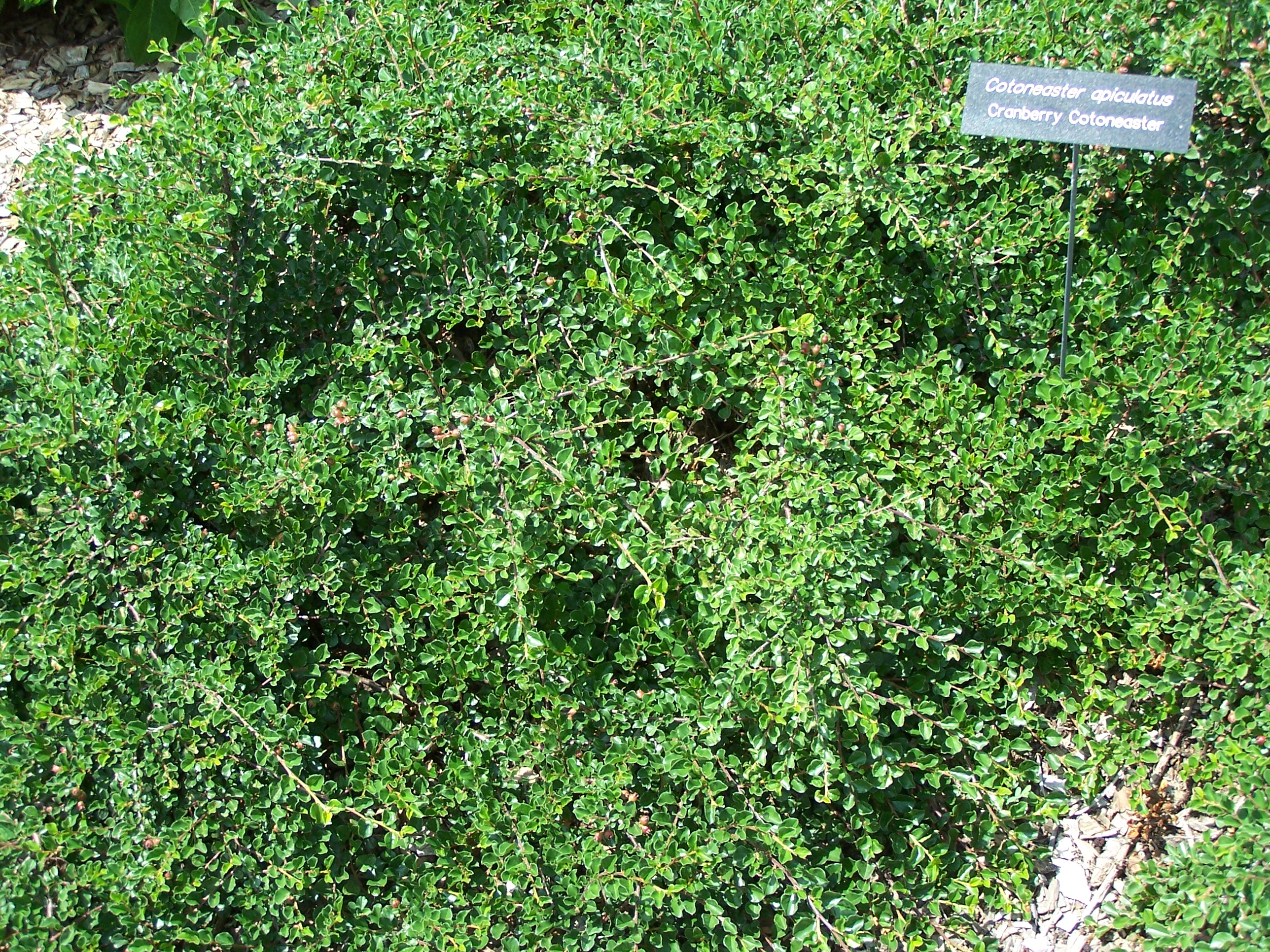 Cotoneaster apiculatus Cranberry Cotoneaster at Minnesota Landscape Arboretum